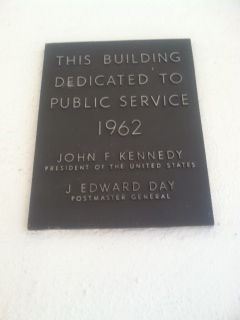 Ruskin Post Office Dedication Plaque 455 N Us Highway 41, Ruskin, FL 33570